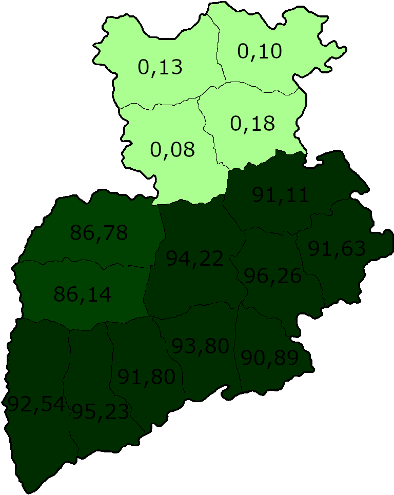 Ukrainian language in Chernihiv Governorate according to 1897 census.